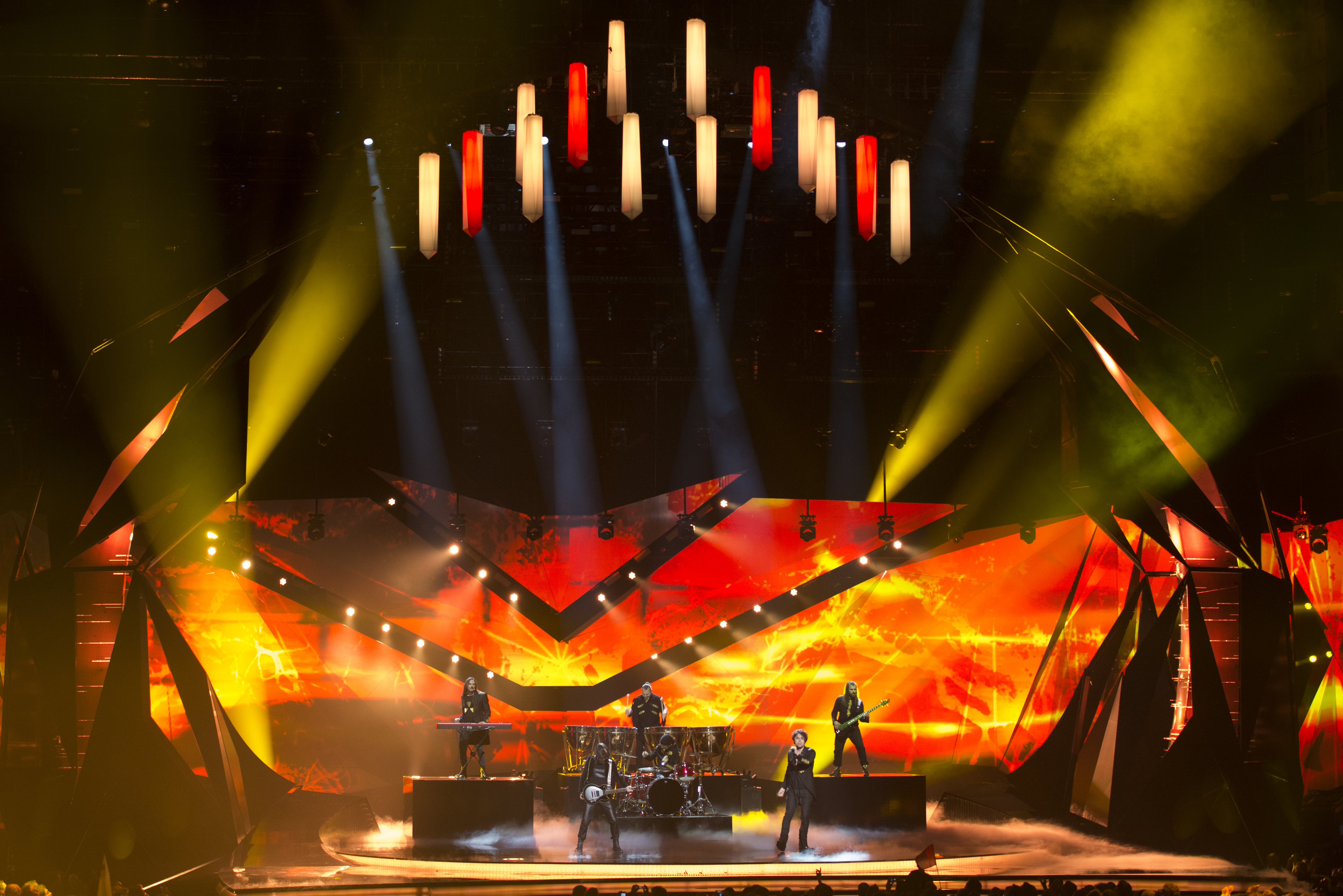 Adrian Lulgjuraj & Bledar Sejko from Albania performing their song in the second dress rehearsal for the second semi final of the Eurovision Song Contest 2013.